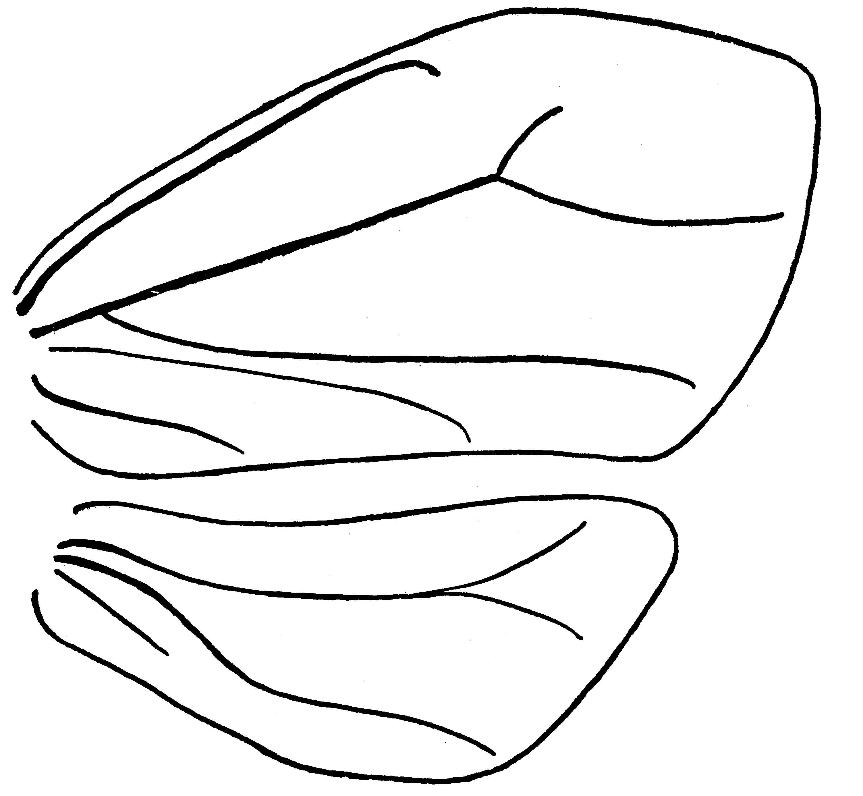 Showing wing venation of an unusually complex type for a species in the family Aleyrodidae.